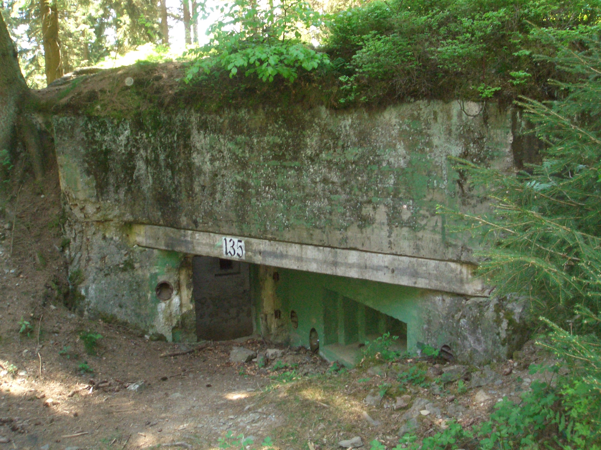 The back of the bunker 135 of the Siegfried Line at the Buhlert in the northern Eifel with entrance and visible rests of the green colour.